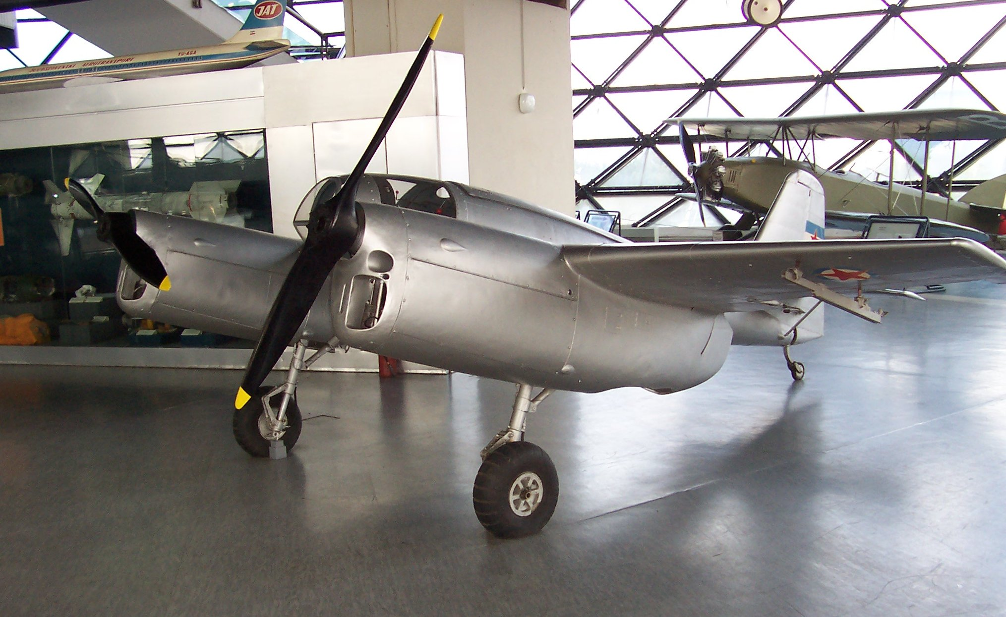 Image shows experimental plane 451, made in Yugoslavia around 1948. Designer Dragoljub Beslin.